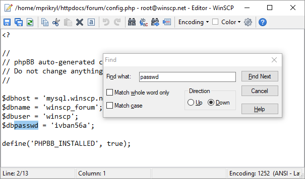 Screenshot of WinSCP 5.13 Internal Editor (Windows 10)